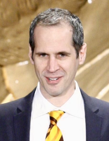 PHOTO CREDIT: ANDERS KRUSBERG / PEABODY AWARDS Alex Blumberg 69th Annual Peabody Awards Luncheon Waldorf=Astoria Hotel New York, NY USA May 17, 2010